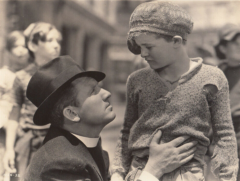 Press photo of Spencer Tracy and Martin Spellman in "Boys Town" (1938 film)